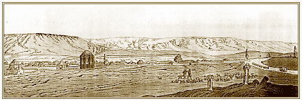 General View on Eski Yurt.